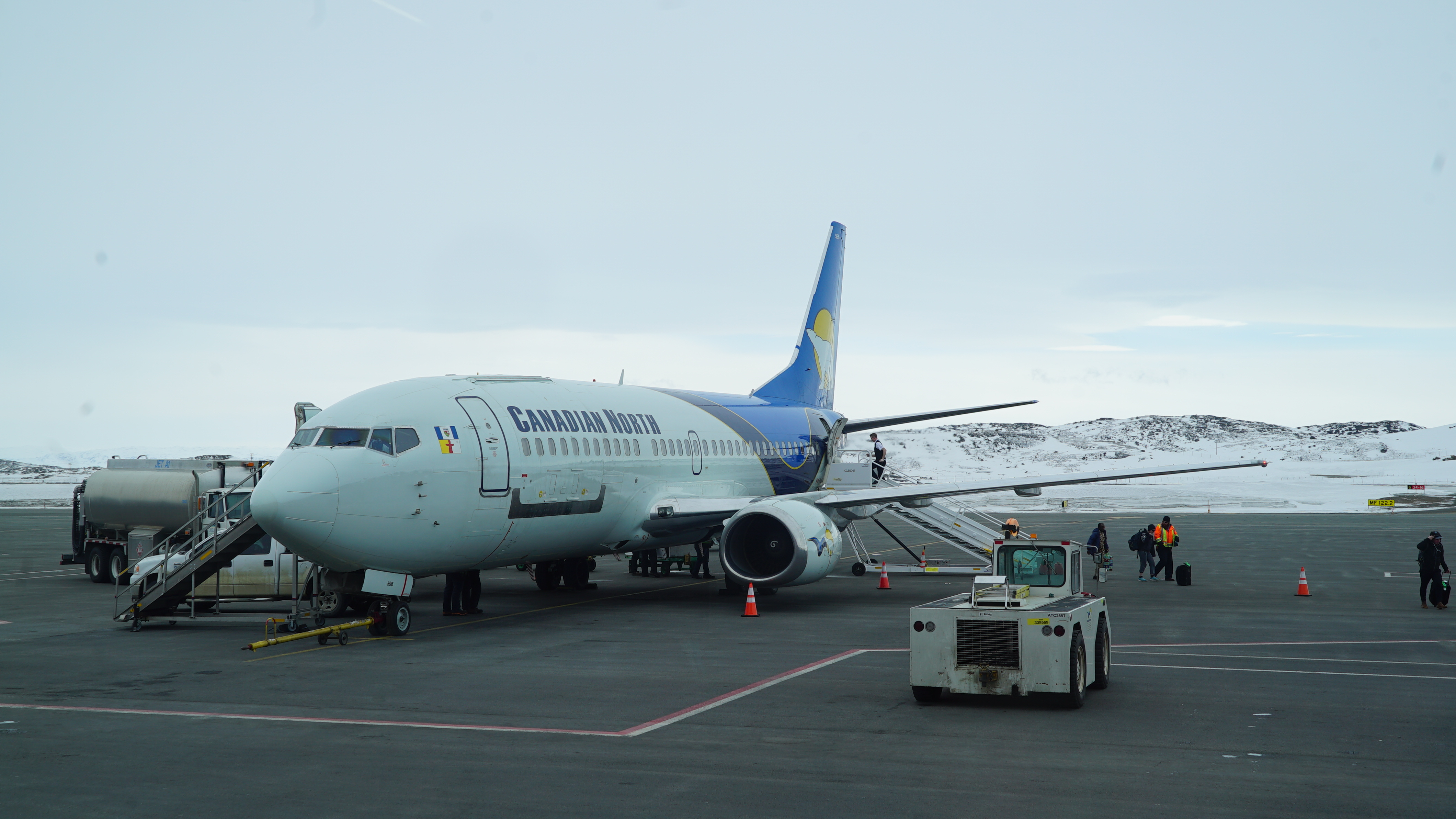 A Canadian North 737-300 parked in Iqaluit, Nunavut.